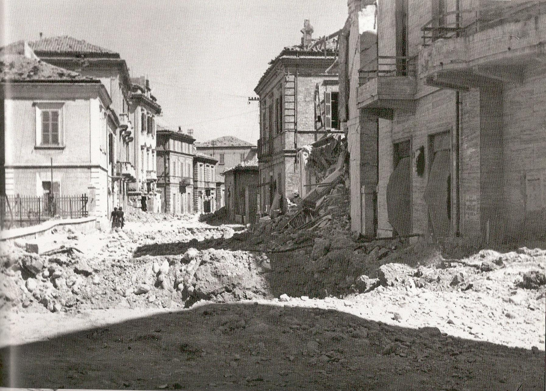 via ravenna pescara